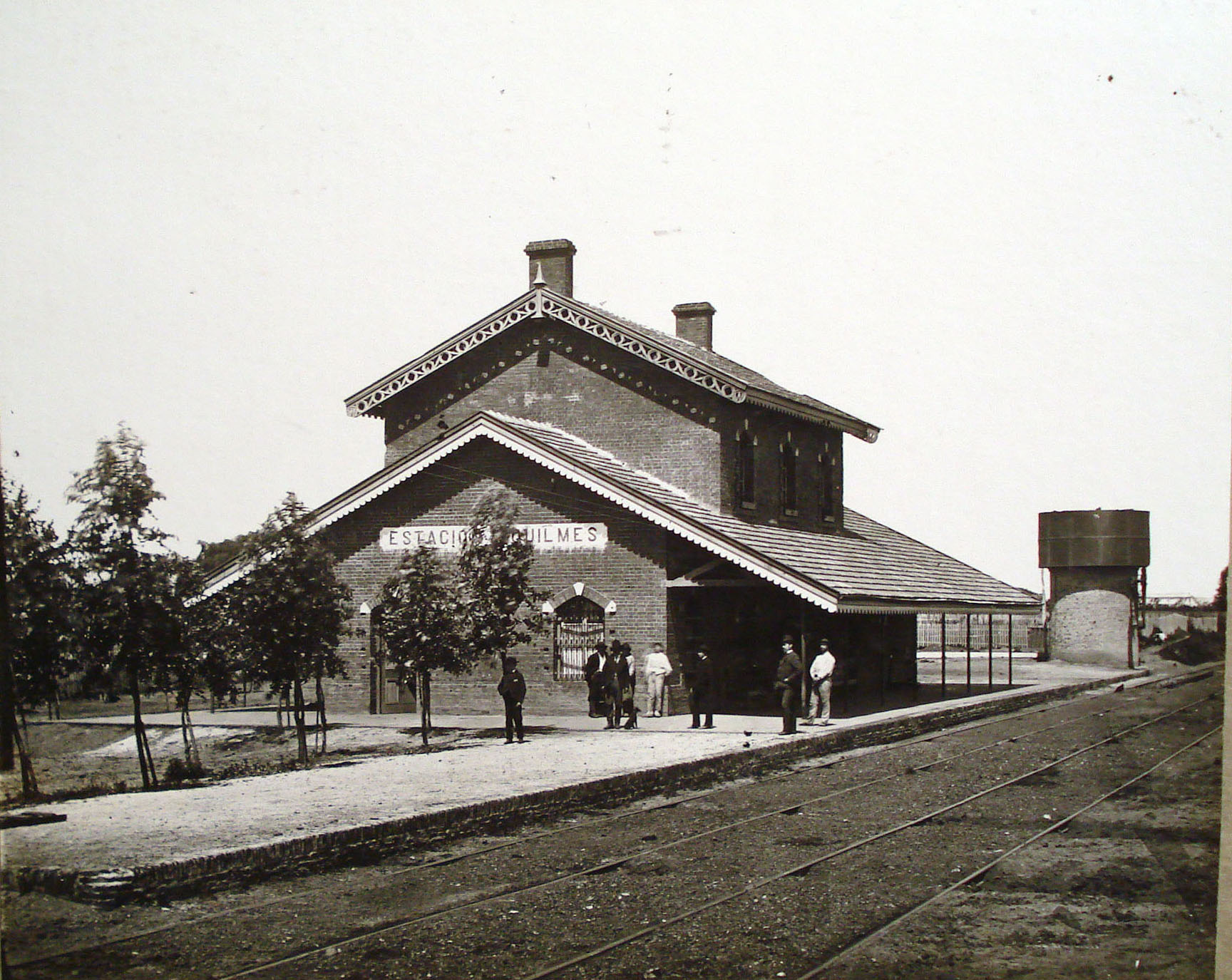 The old Quilmes train station, when it still belonged to Buenos Aires & Ensenada Port Railway. The railway line would be later acquired by the Great Southern Railway and the building completely remodeled.